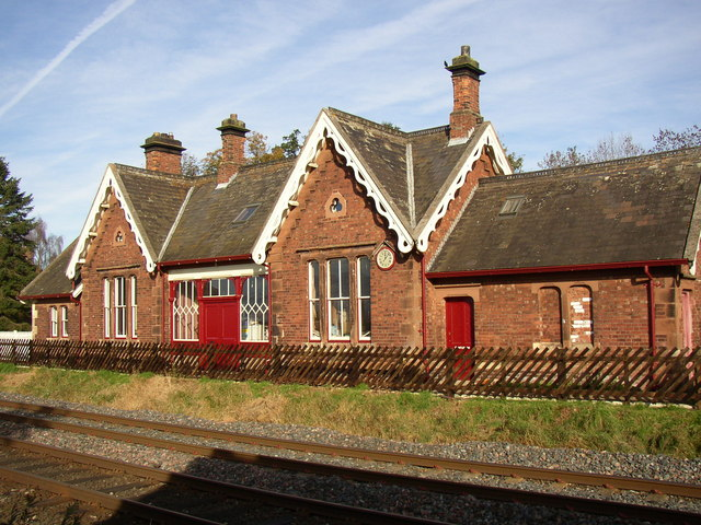 Former railway station, Long Marton This is on the Settle-Carlisle line; it closed in 1970, but has been restored as holiday accommodation.